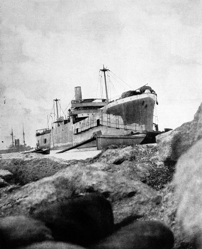 The SS River Clyde beached at Cape Helles, Gallipoli, 1915. Caption reads: One of the most romantic achievements of the war was the landing on Gallipoli of the British troops from the transport River Clyde. The ship was purposely run aground in order to facilitate rapid disembarkation of the soldiers through spacious doors cut in her side. This photograph shows the River Clyde, a new "Horse of Troy", stranded on the Dardanelles shore.